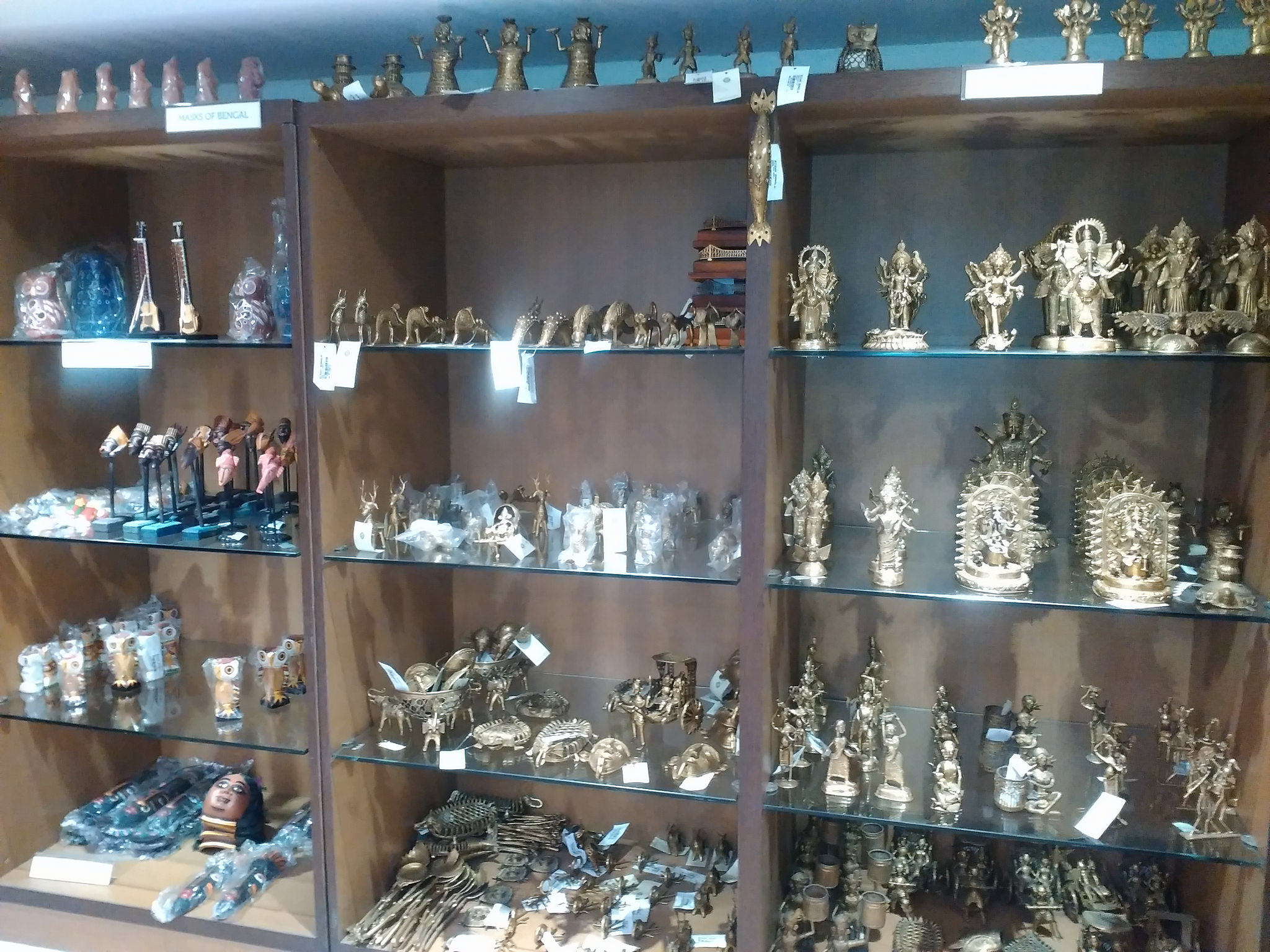 products